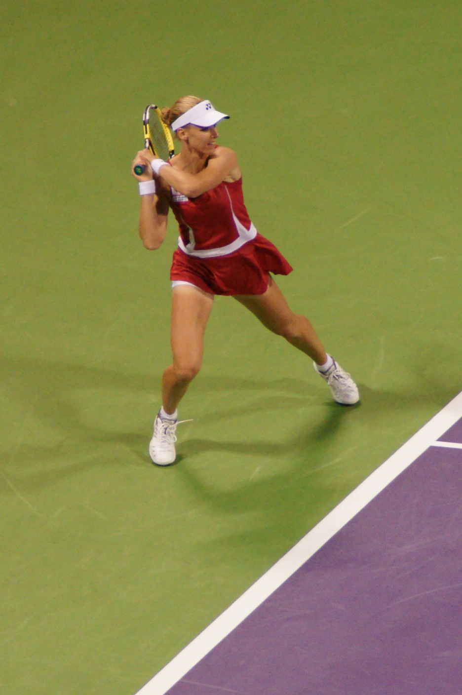 Elena Dementieva at the 2008 WTA Tour Championships